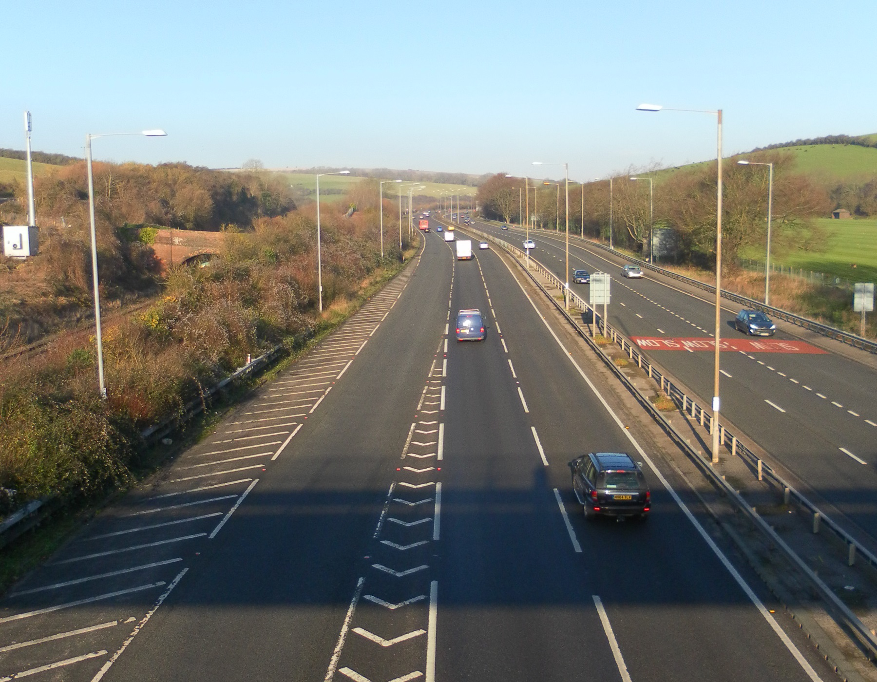 A northward view from the footbridge running from Braypool Lane on the north edge of Patcham to the west side of the A23. This location is still within the city of Brighton and Hove; it is just north of the major A23/A27 junction. On the left is the Brighton Main Line in the vicinity of Patcham Tunnel. The triple-carriageway A23 dominates the scene, and sports fields are on the right.